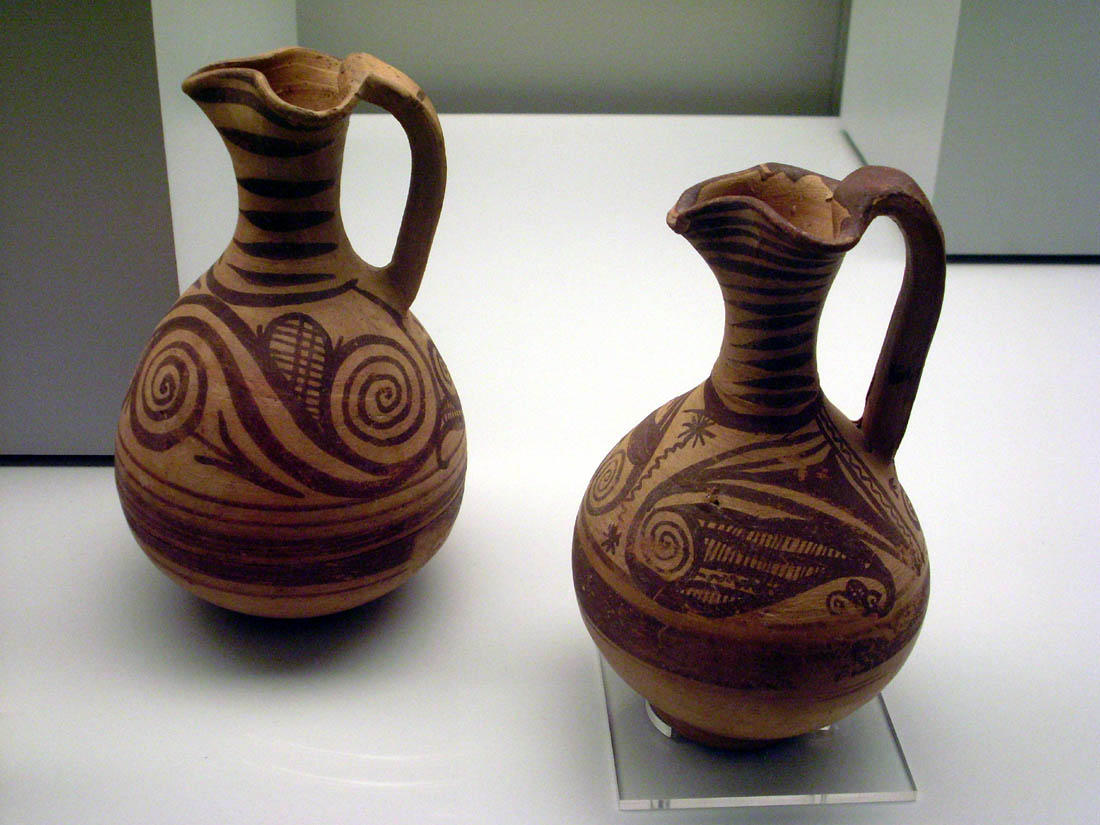 Iberian oinochoes in the archaeological museum of Murcia.